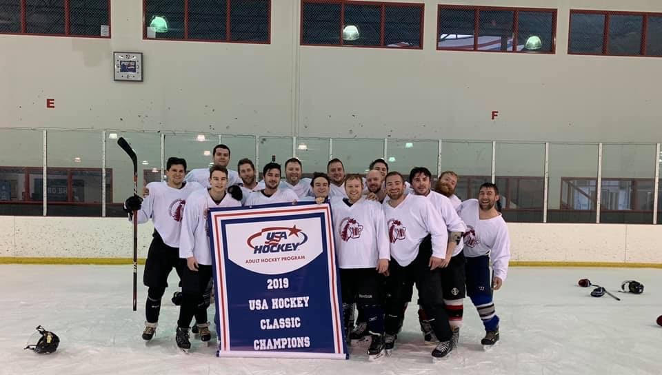 Charley Champion